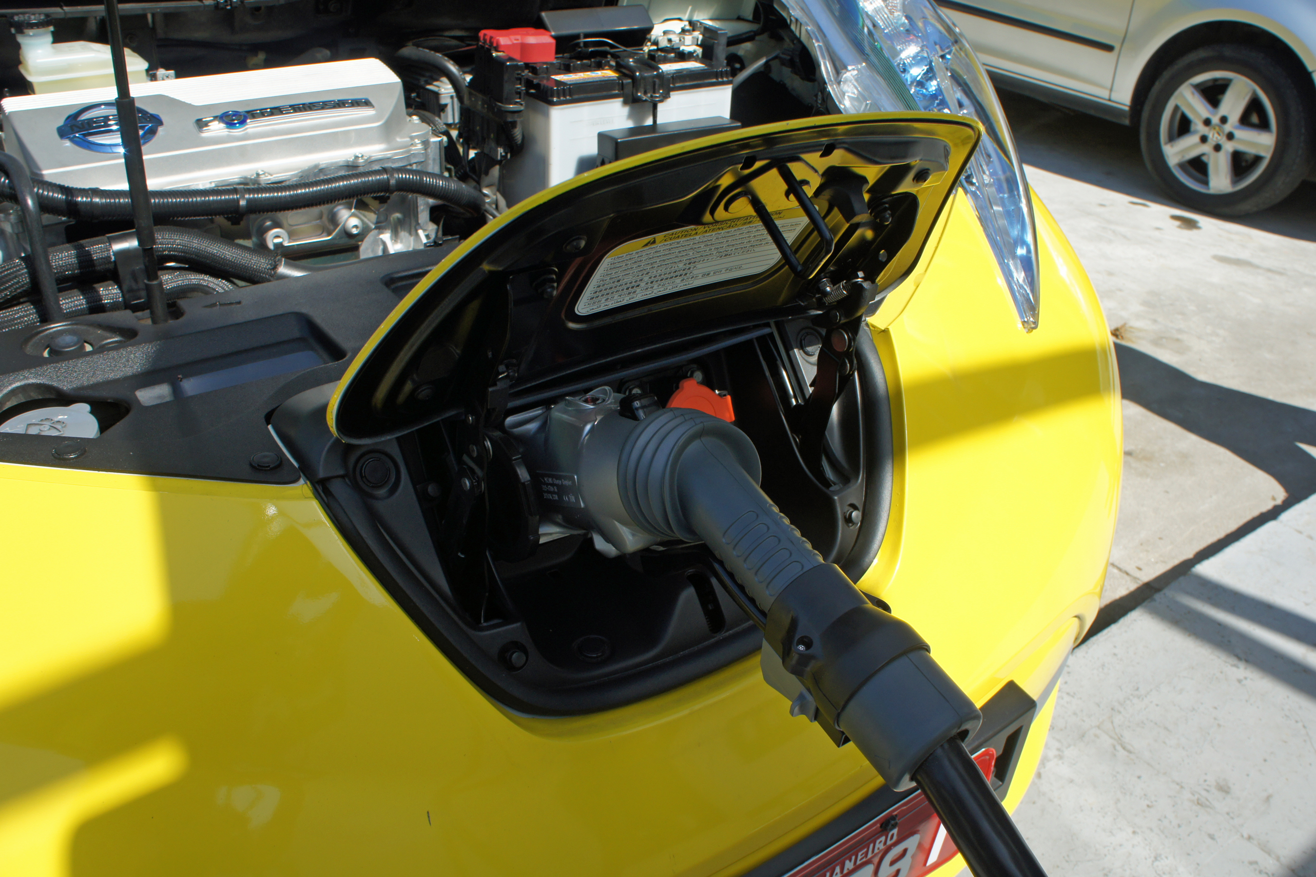 Nissan Leaf charging port, Rio de Janeiro, Brazil